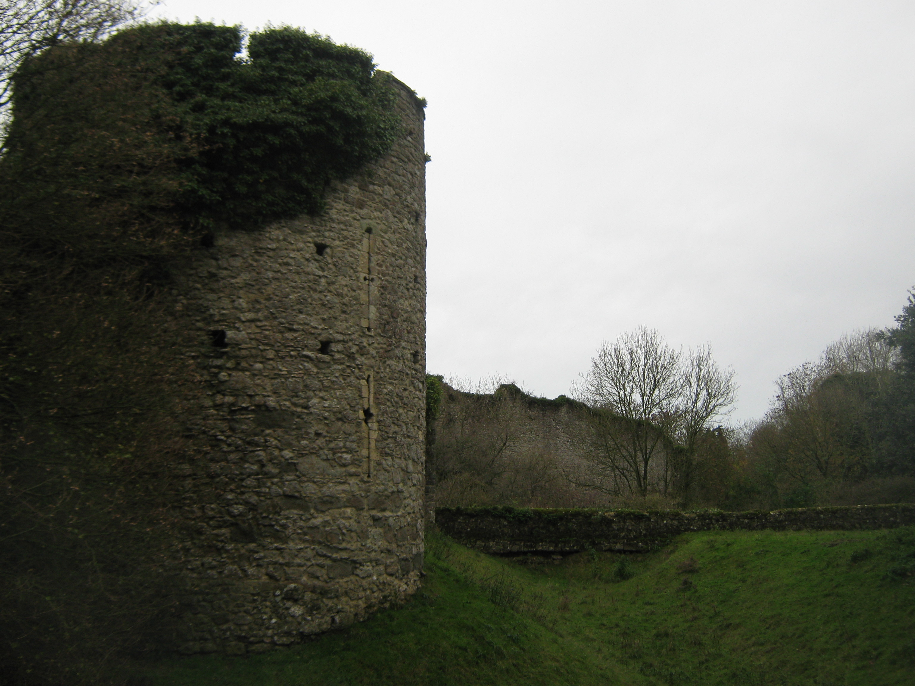 Walls of Saltwood Castle and Moat